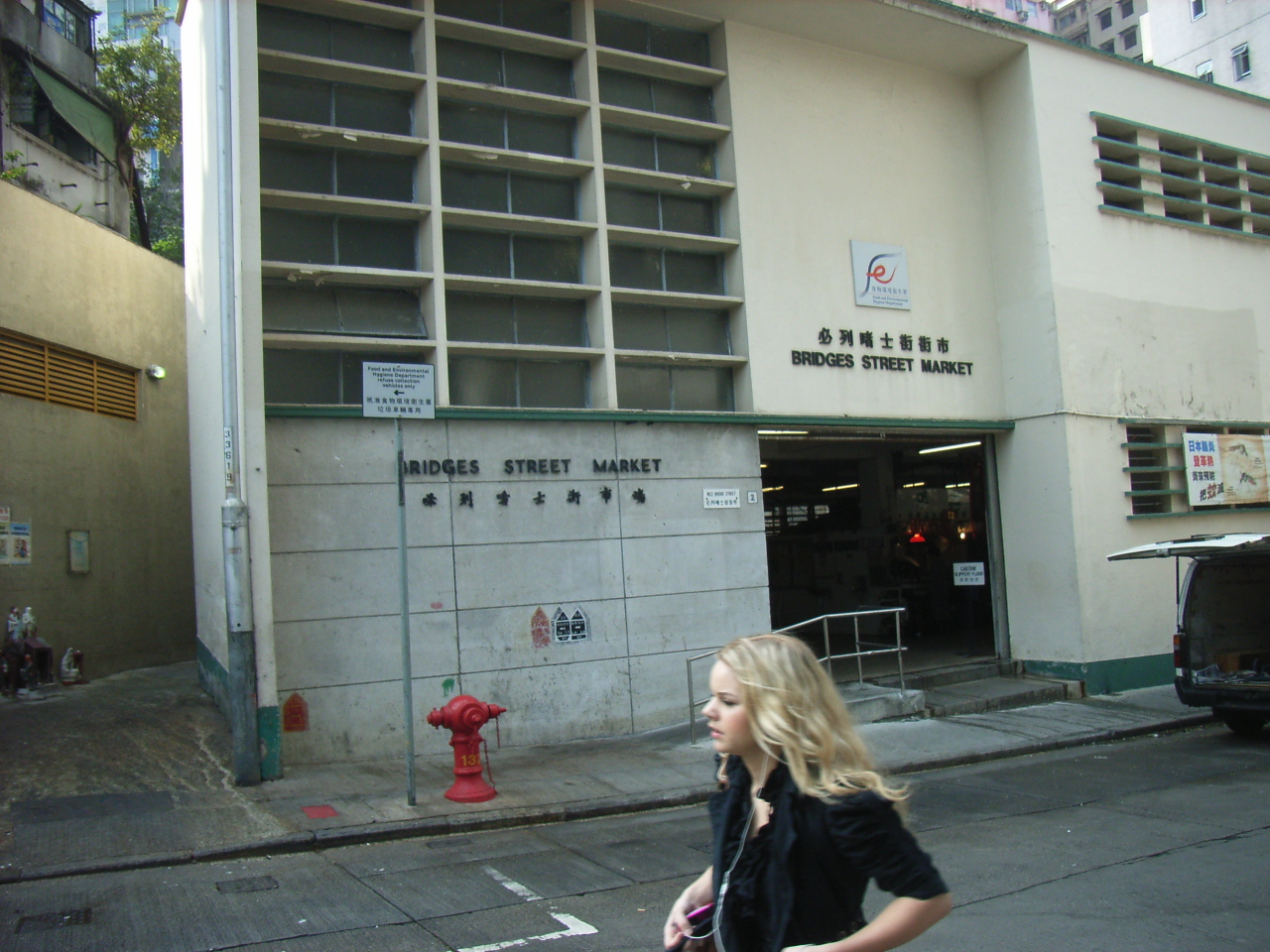 Bridge Street, Sheung Wan, Hong Kong (Photographer & author: User:BITBITSW).